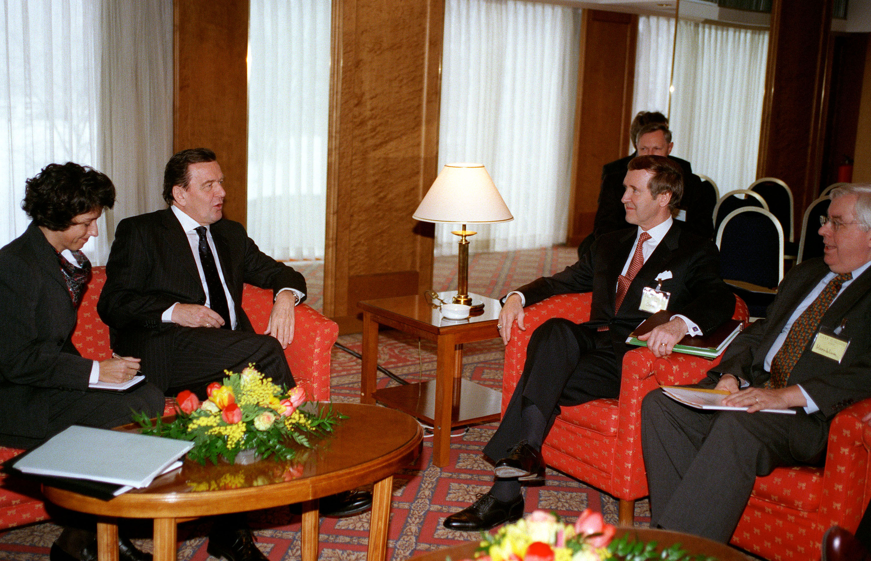 German Chancellor Gerhard Schroder (second from left) meets with Secretary of Defense William S. Cohen (second from right) and U.S. Ambassador to Germany John C. Komblum (right) in Munich, Germany on Feb. 6, 1999.